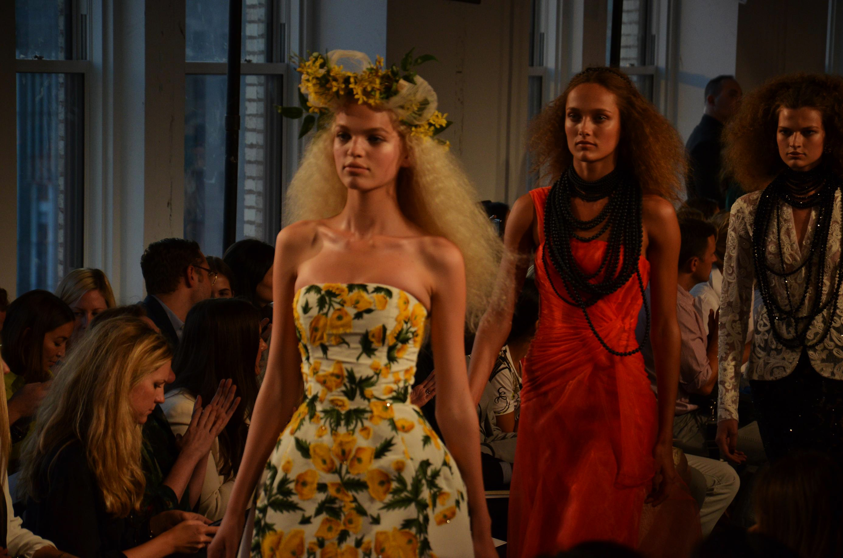 Fashion Week SS2012